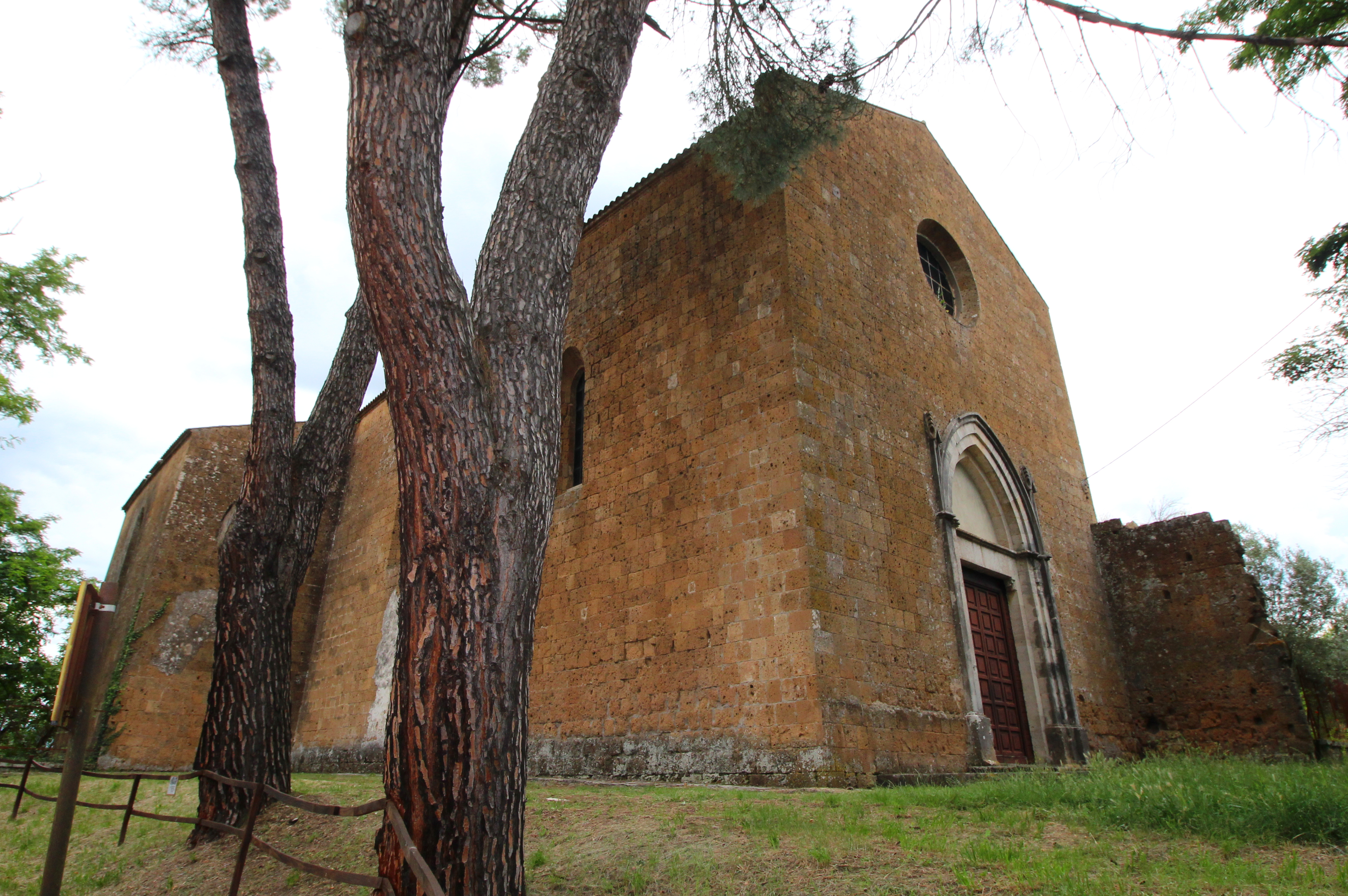 Church San Martino, Proceno, Province of Viterbo, Lazio, Italy